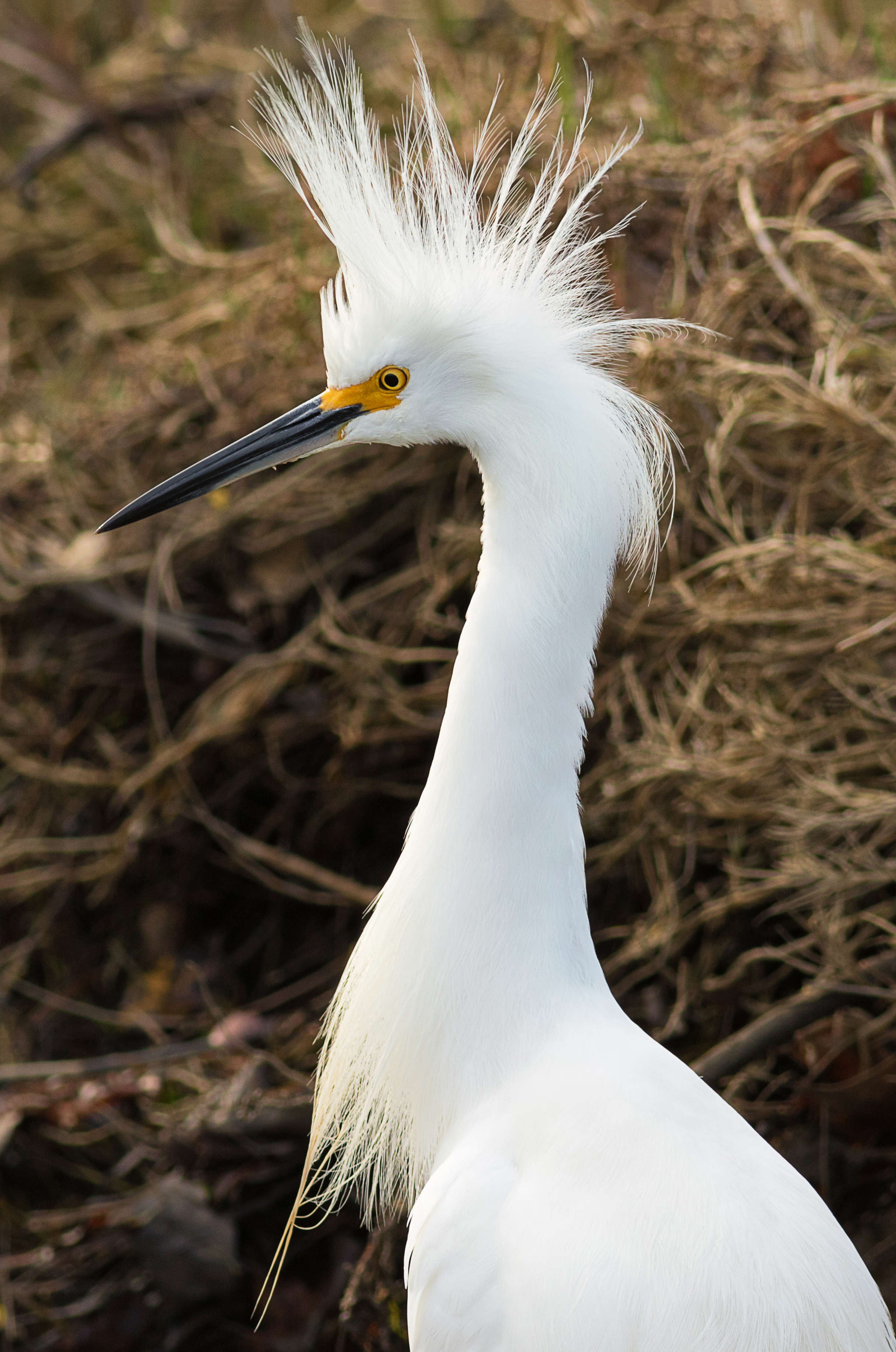 Snowy egret (Egretta thula) in the marshes of Strawberry, California